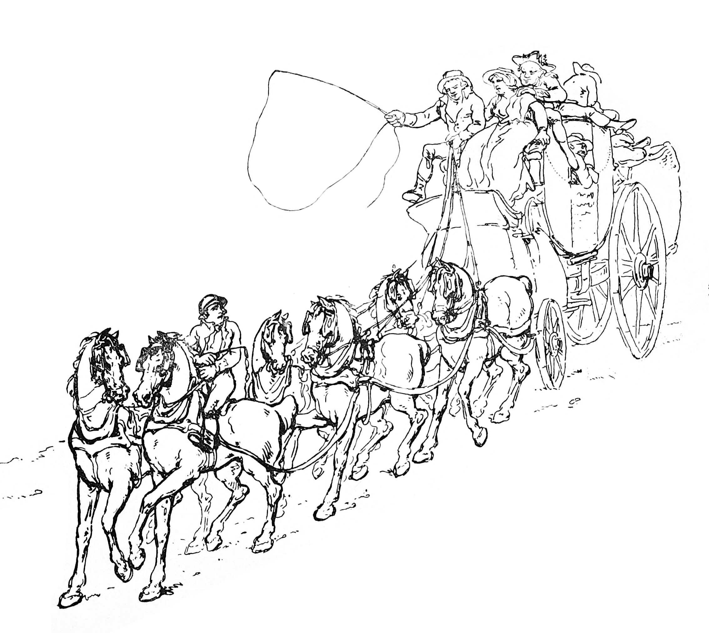 "A Manual of Coaching" by Fairman Rogers. J.B. Lippincott Company, 1900. Page 72